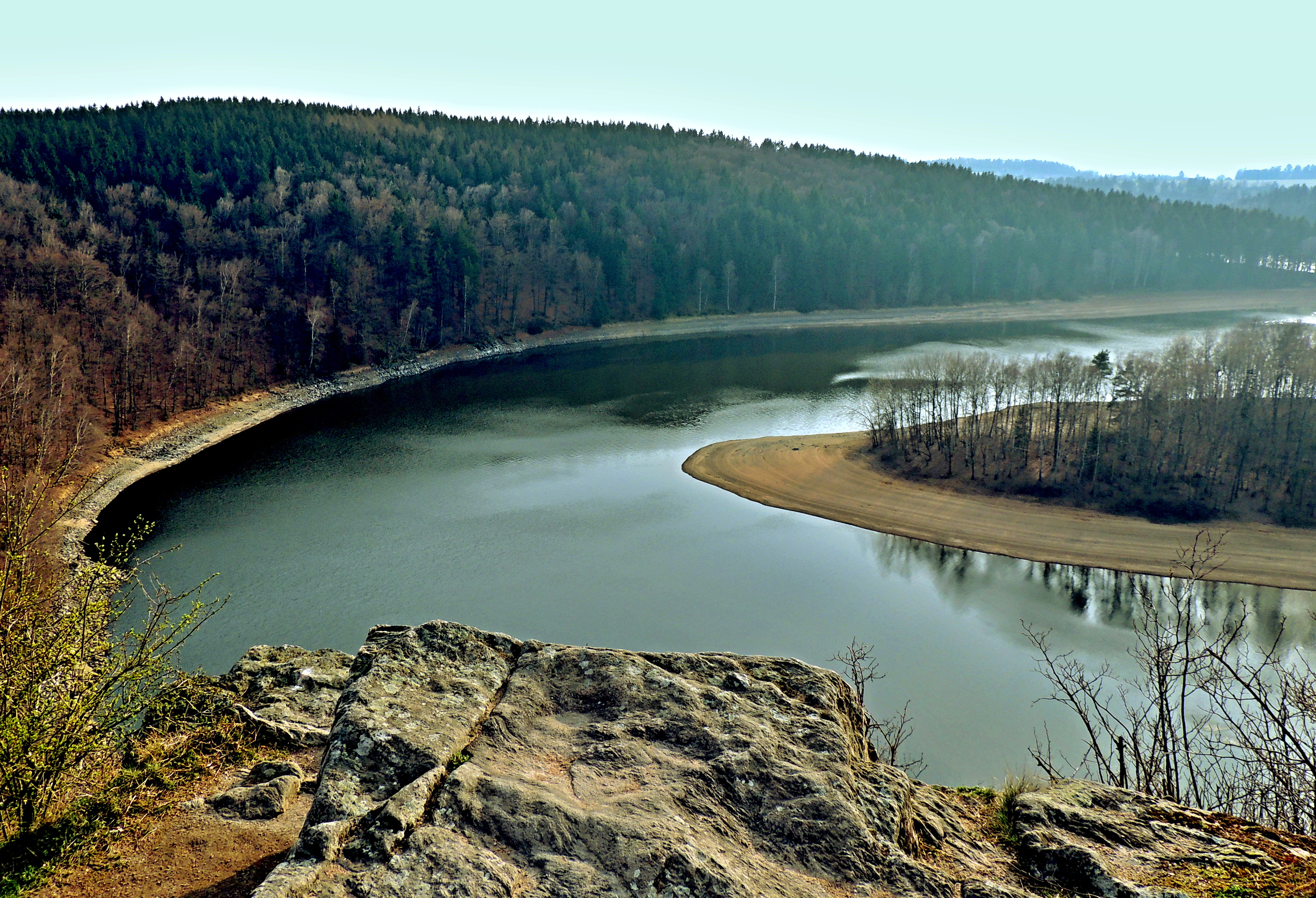 The sharp bend of the River "Chrudimka" in the water reservoir "Seč" under the rocky outcrop of the Oheb Nature Reserve in the Protected Landscape Area Iron Mountains. Location in the landscape area "Sečská" highlands (geomorphological part of the whole), orographically the highest part of the Iron Mountains. Photo location: Czechia, Pardubice Region, town Seč